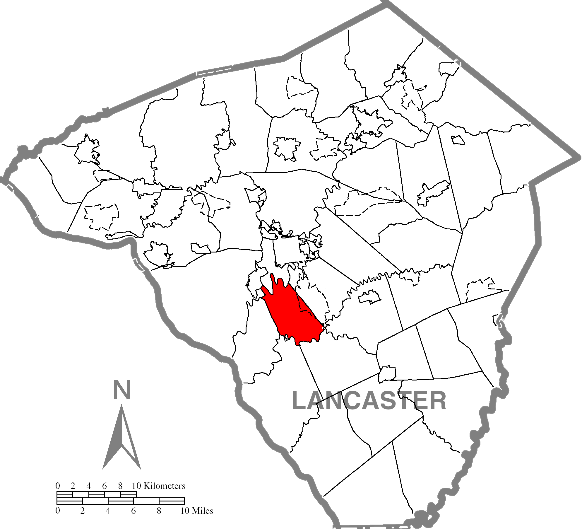 Highlighted Lancaster County map of Pequea Township.